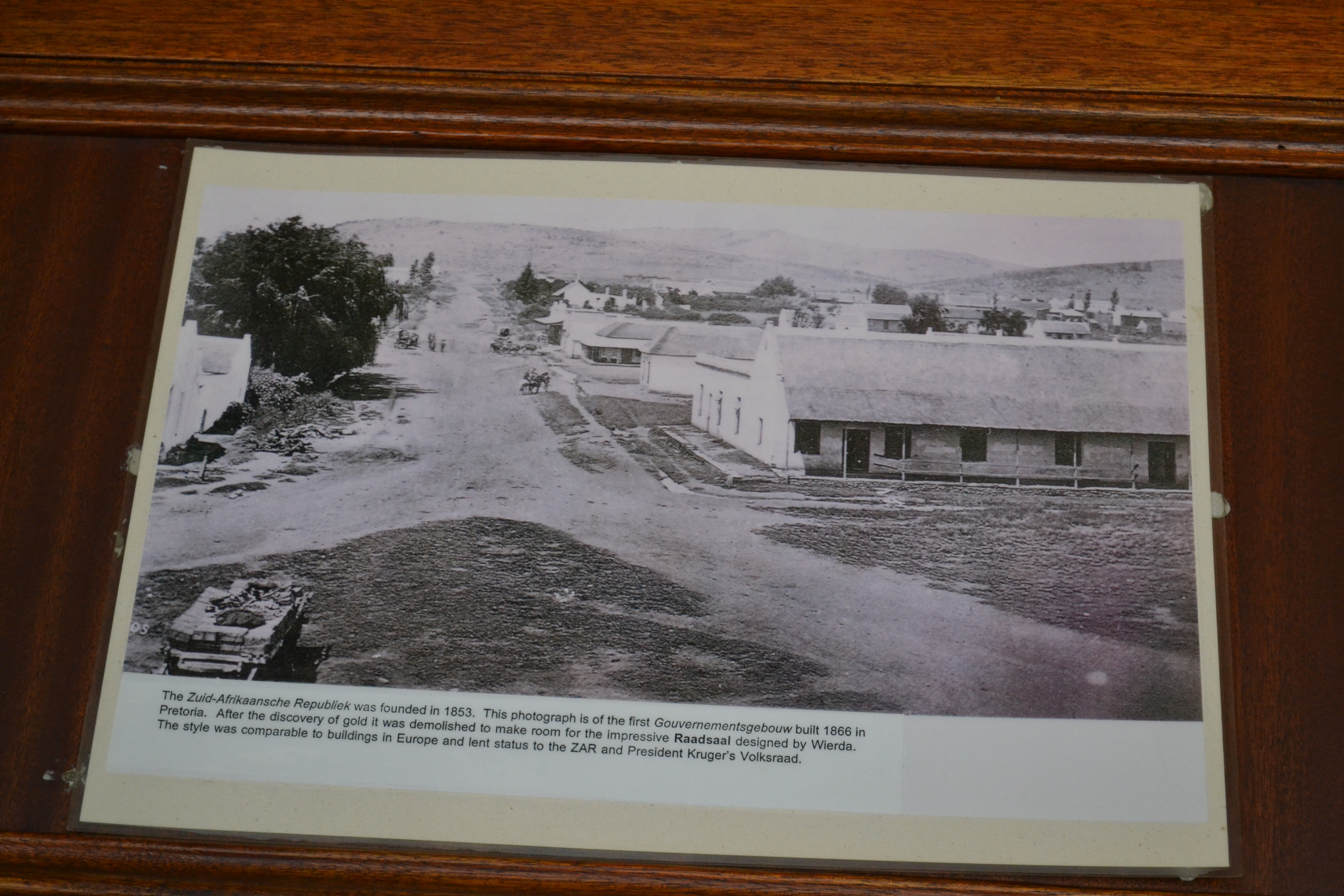 Cafe Riche Church Square Pretoria This media shows a South African Protected Site with SAHRA file reference 9/2/258/0012 .